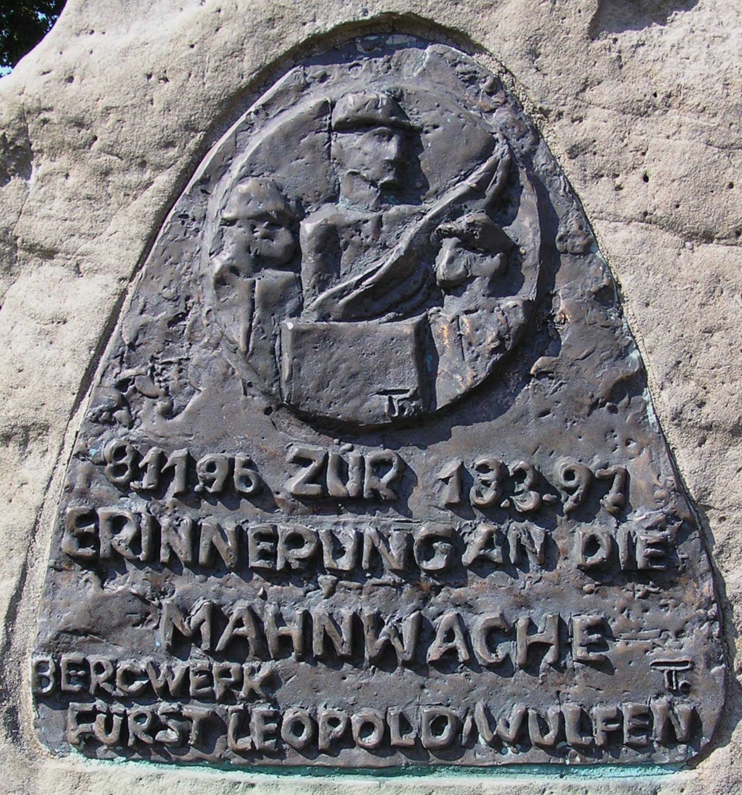 Memorial by Tisa von der Schulenburg for the demonstration against closing the coal mine "Fürst Leopold" near Dorsten, Germany.